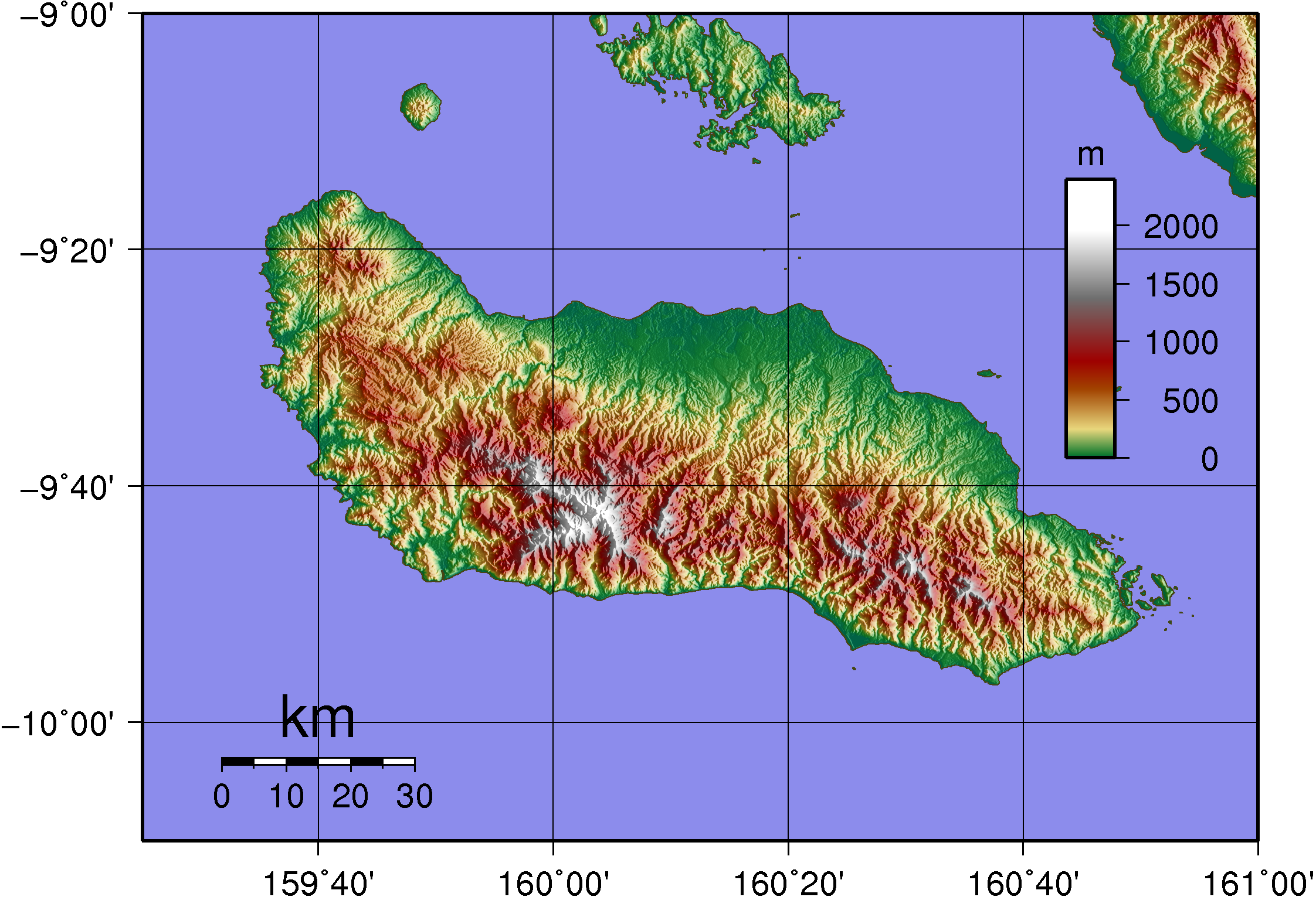 Topographic Map of Guadalcanal